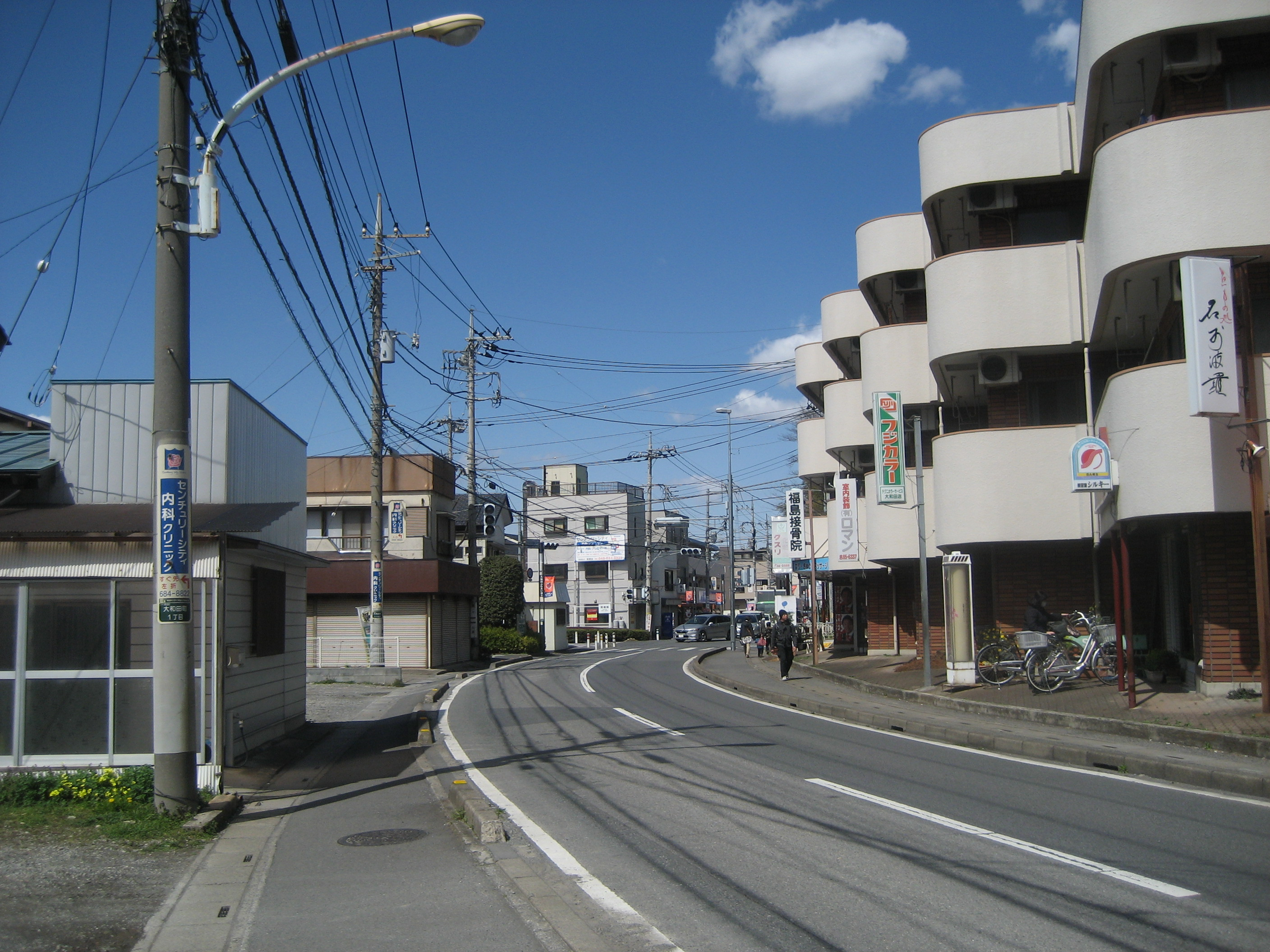 The Saitama Prefectural Road Route 398 near the Owada Station South Intersection in Minuma-ku, Saitama City